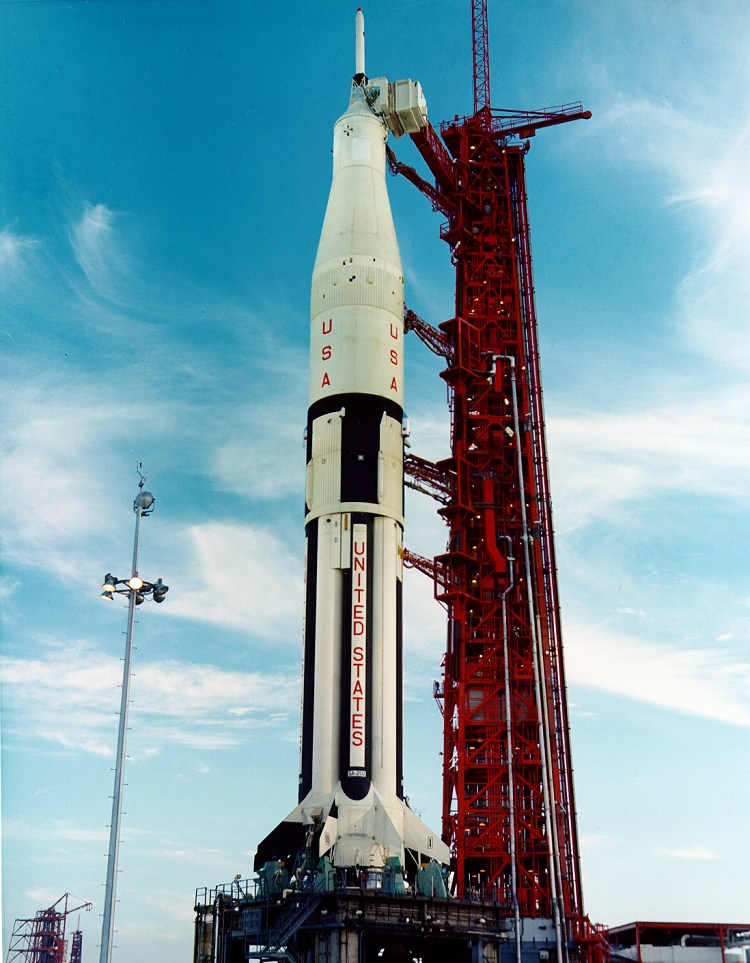 AS-202 on the launch pad